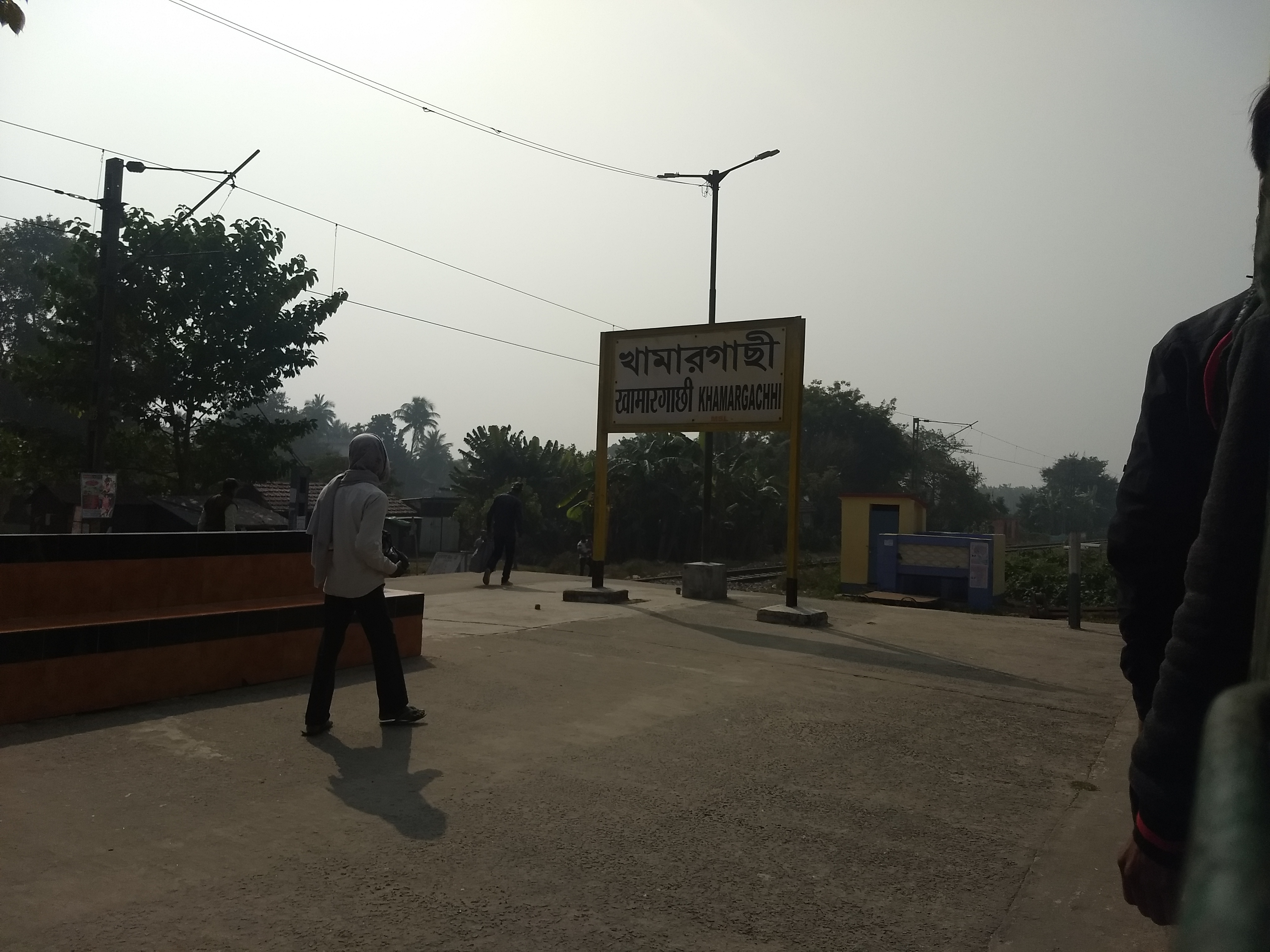 Khamargachhi railway station